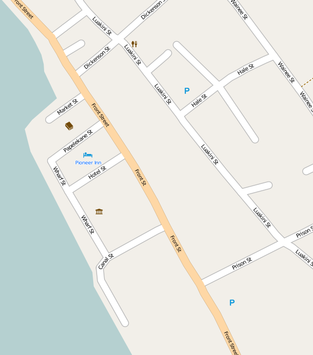 This map of Lahaina was created from OpenStreetMap project data, collected by the community. This map may be incomplete, and may contain errors. Don't rely solely on it for navigation. Border coordinates20.874242-156.679159←↕→-156.67514720.869987